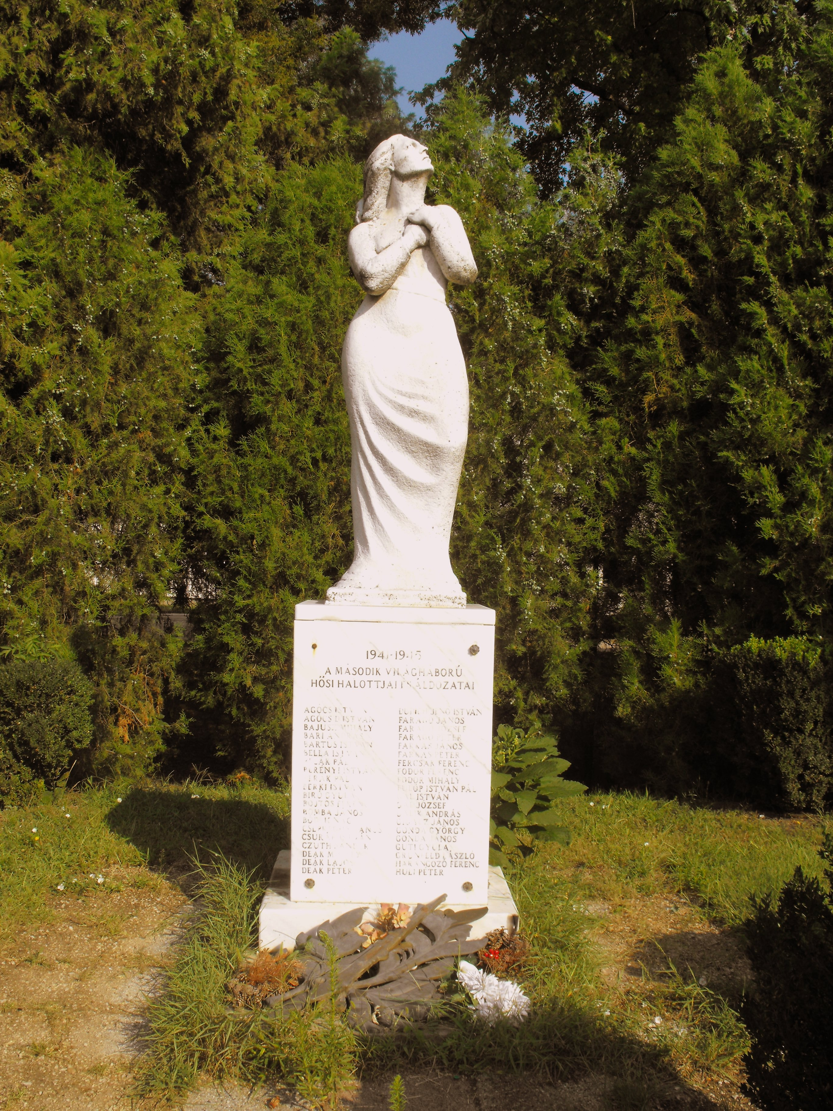 Second World War memorial in Mezőkovácsháza, Hungary.